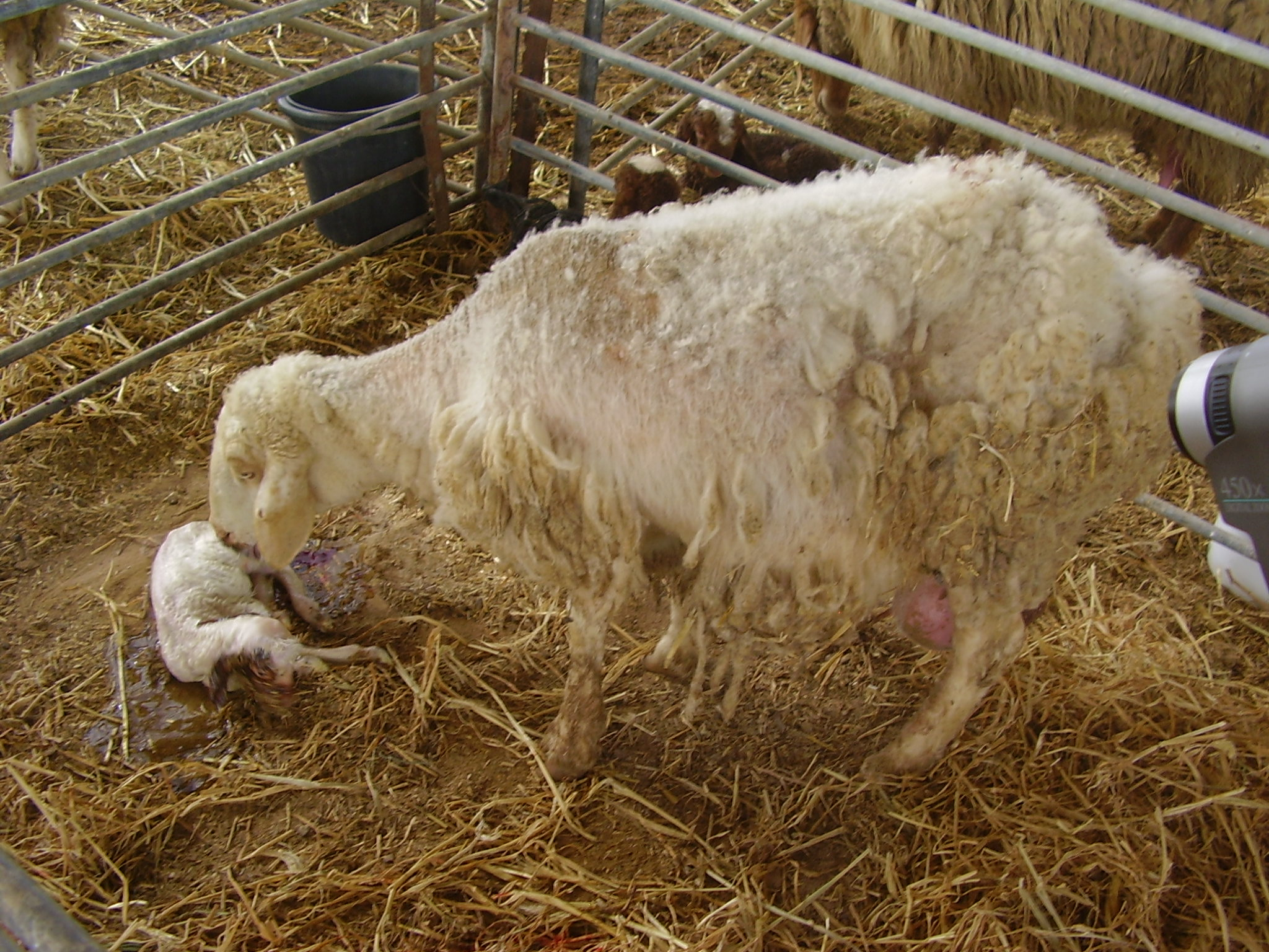 Sheep and Lamb after giving birth